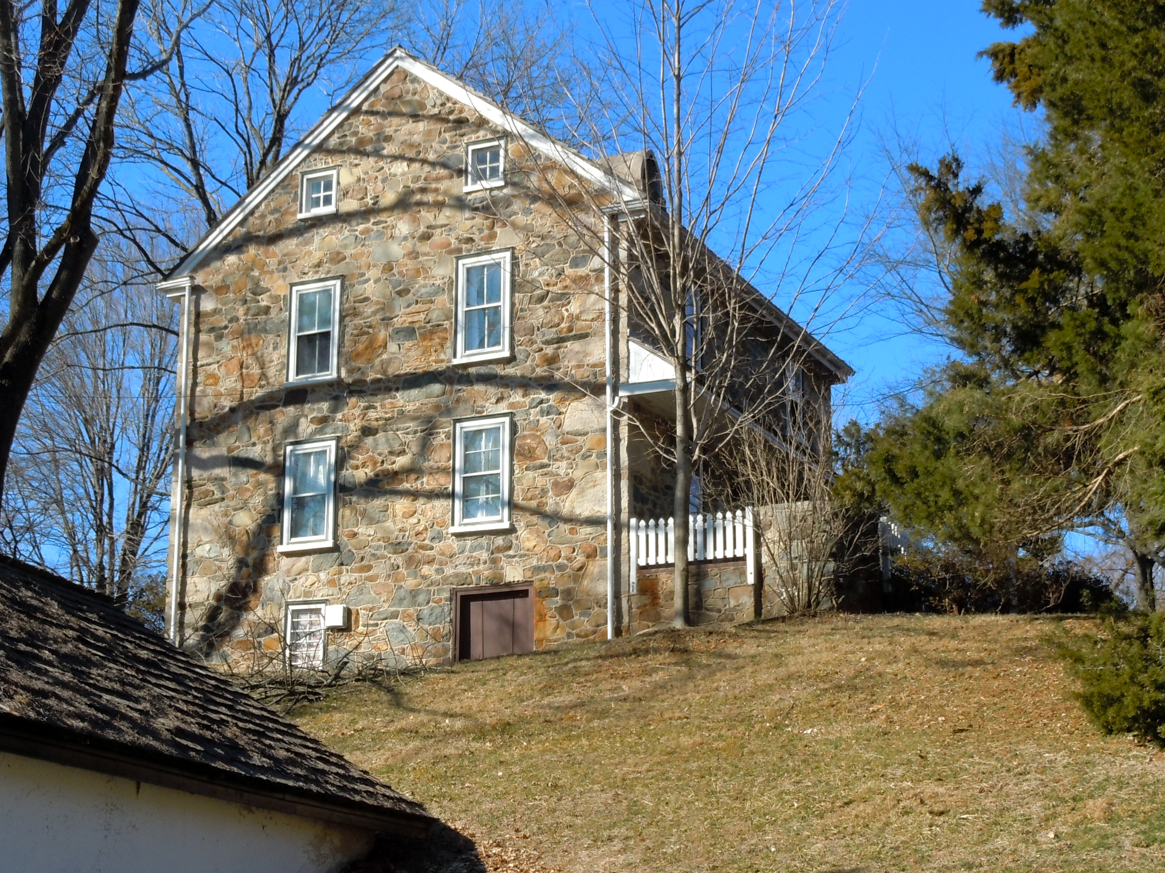 George Deery house on Deery Family Homestead on the NRHP since December 23, 1977. Located west of Phoenixville, in West Vincent Township, Chester County, Pennsylvania.